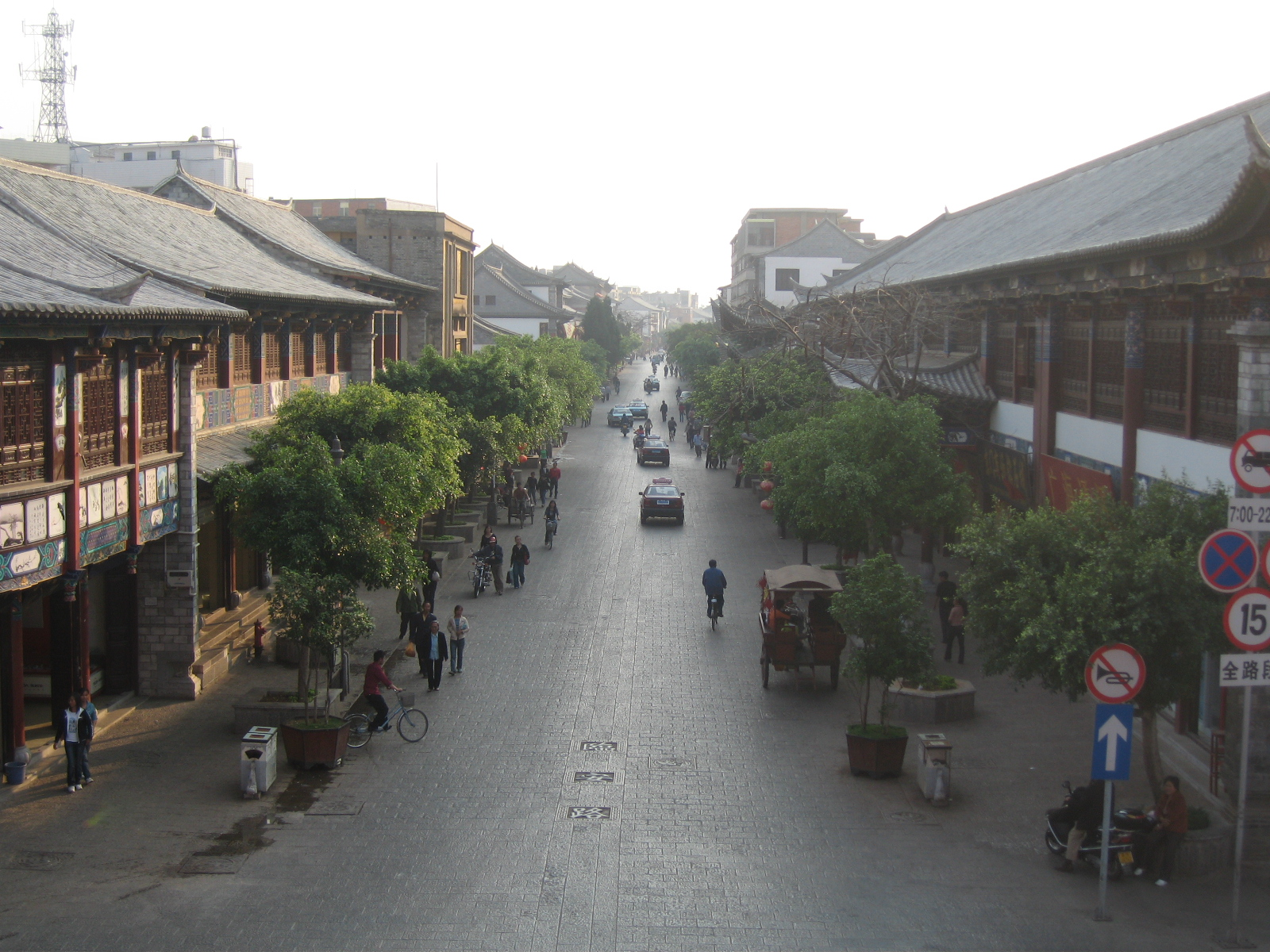 Downtown Jianshui